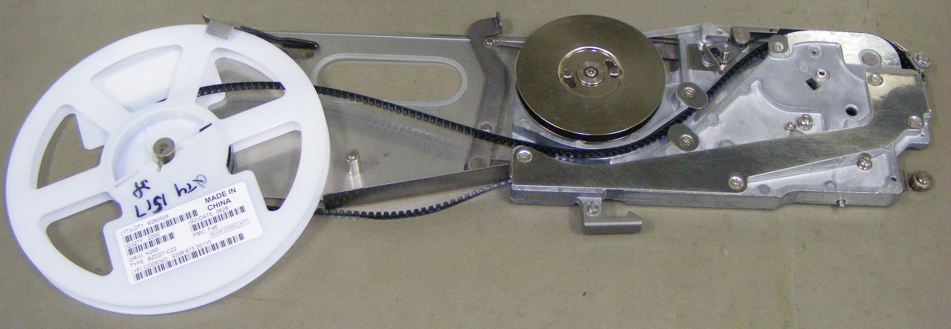 surface mount electronic component feeder for use in a robotic pick-and-place SMT machine. An almost empty 8" reel of diodes is loaded.